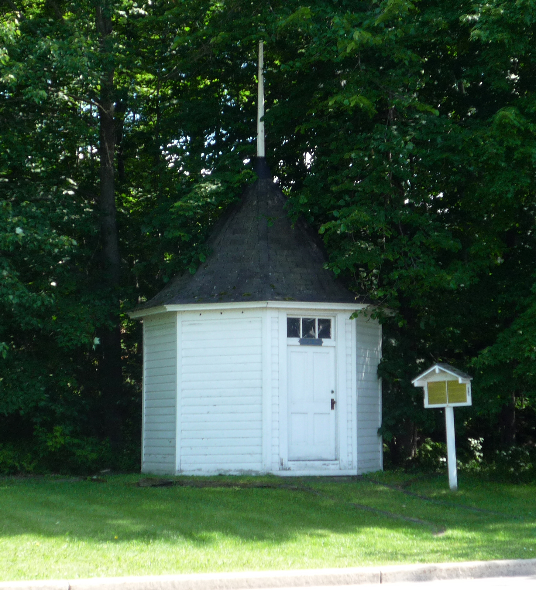 Spring House, protecting the original Chippewa Spring. The spring was discovered in 1700 by Pierre Le Sueur, and the structure was build in 1893 to protect it. It is adjacent to the massive bottling plant that has sold Chippewa Springs water for over 100 years. Chippewa Falls, Wisconsin, USA.